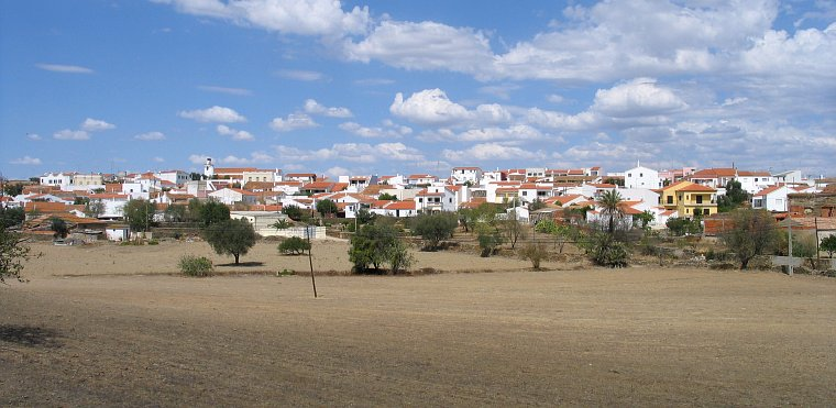 Photography by: Osvaldo Gago